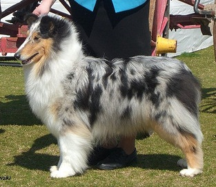 Blue Merle Rough Collie Show Stack